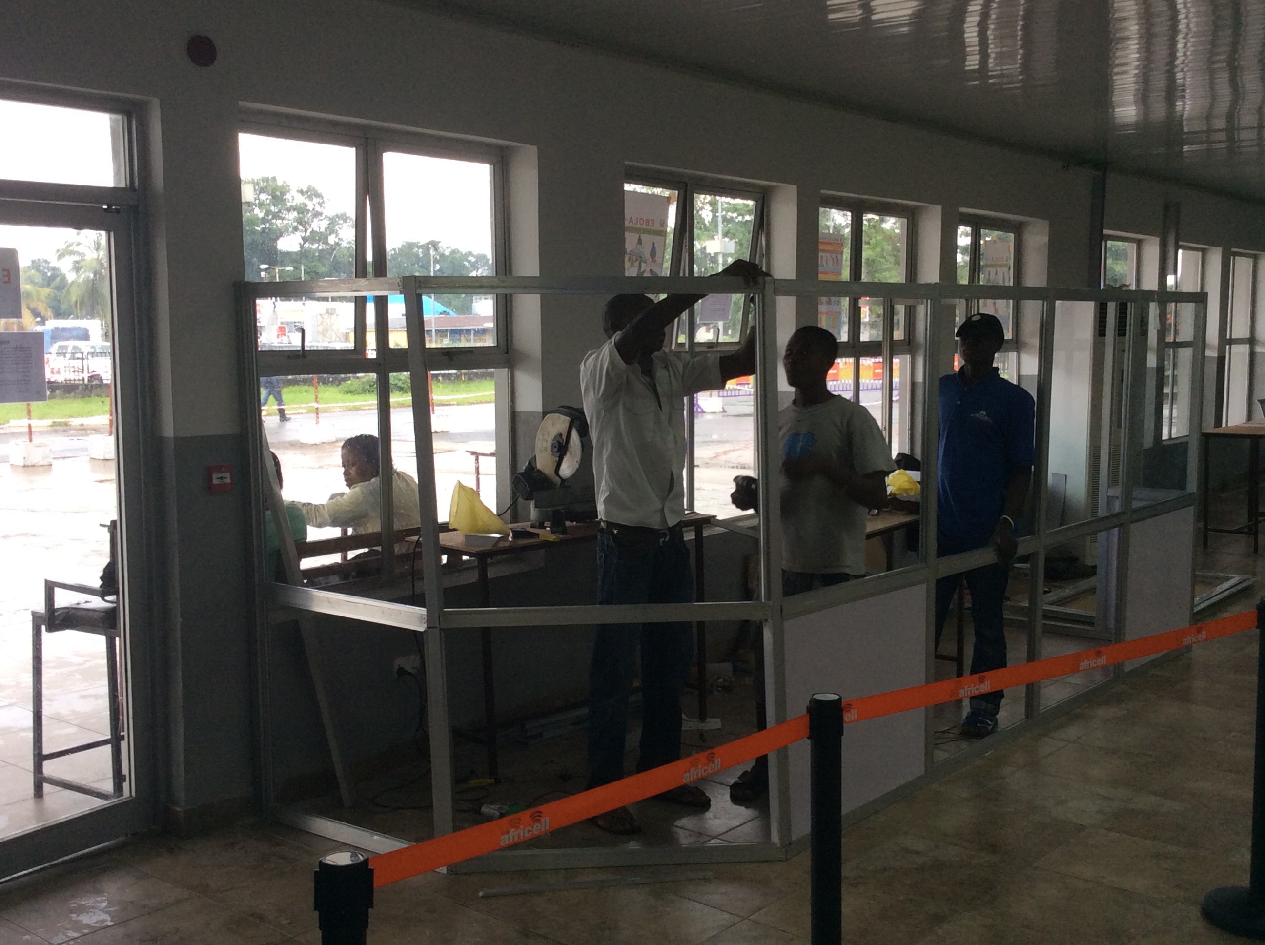 Building new Port Health Screening Room at Freetown International Airport in Sierra Leone. Photographer: Jennifer Brooks. For more information on Ebola and what CDC is doing, please visit